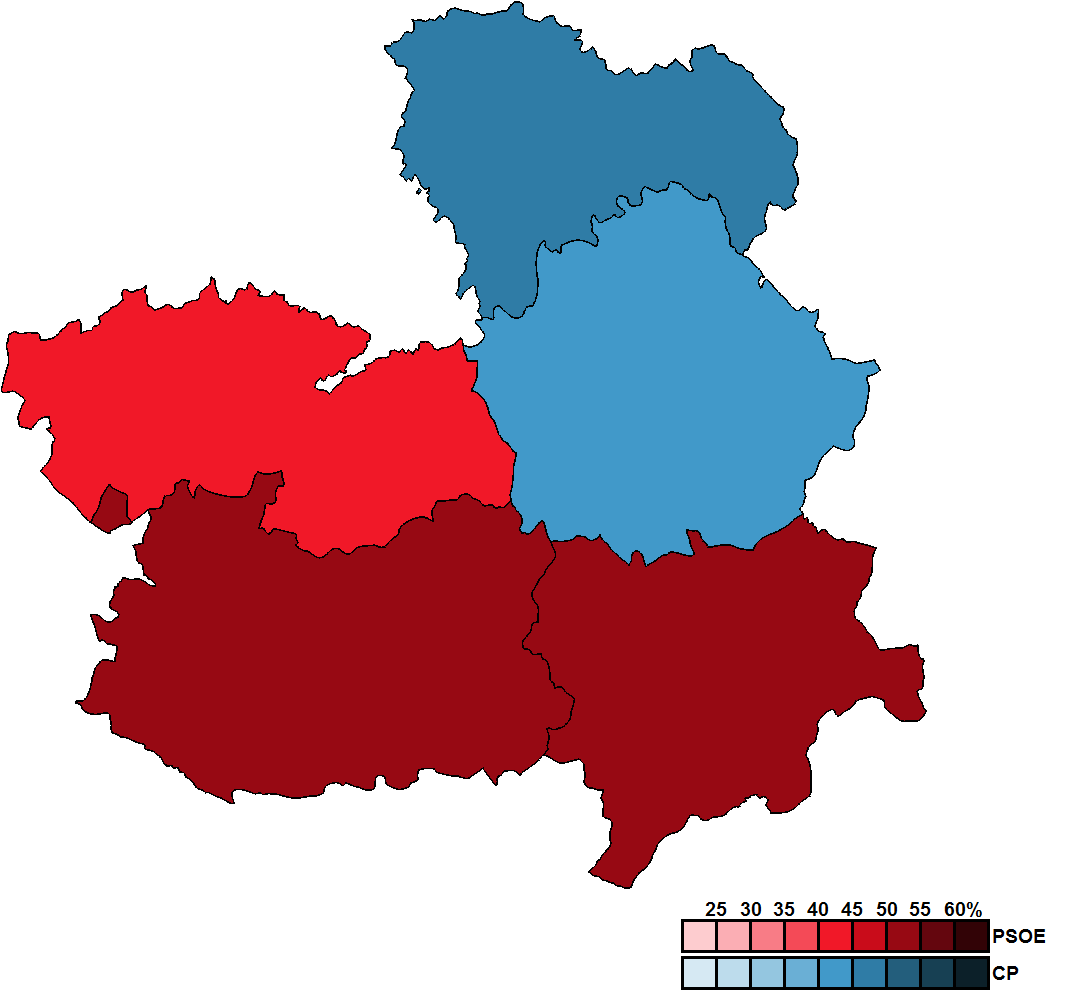 Provincial results for the 1983 Castilian-Manchegan regional election.